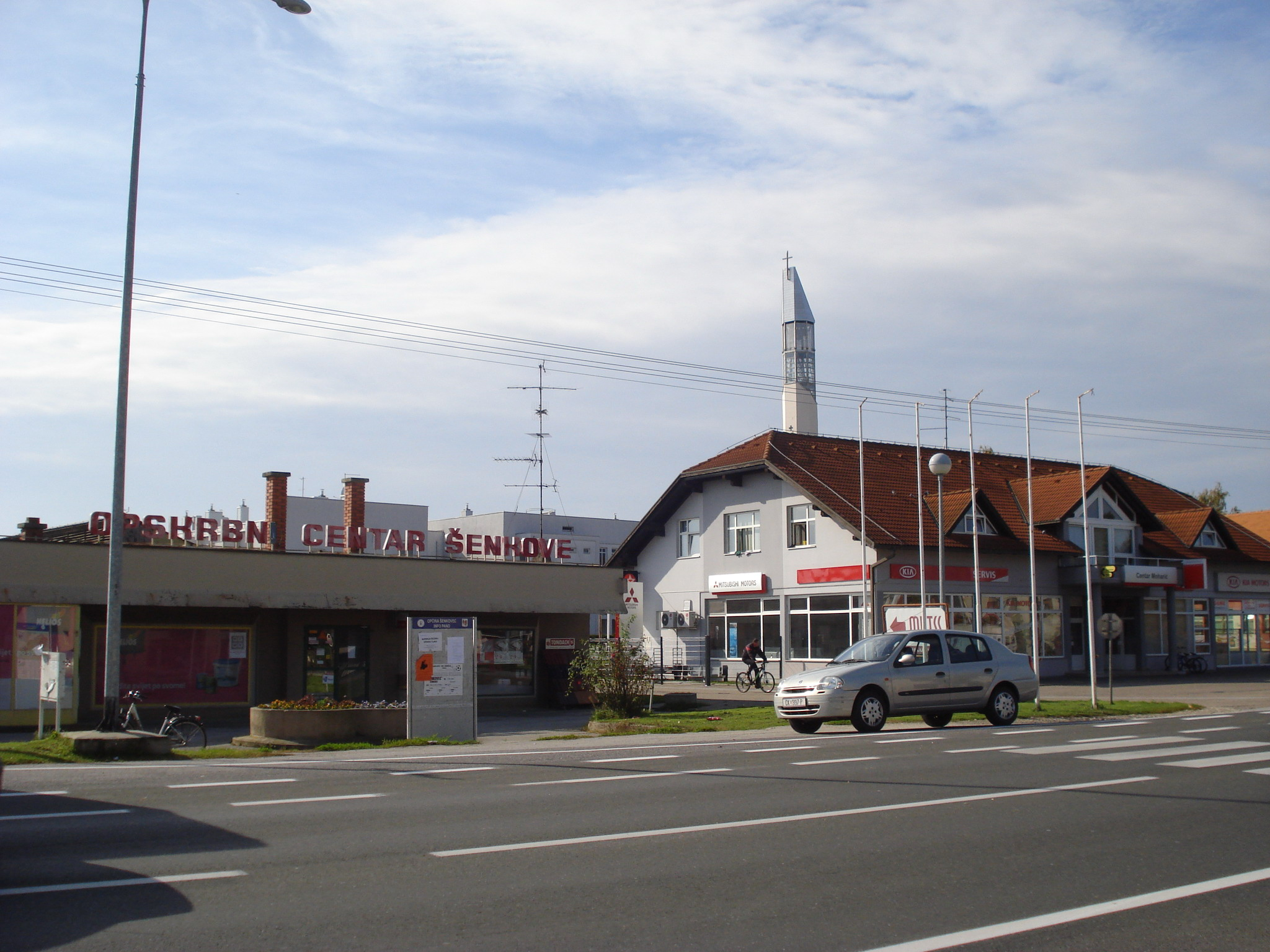 Šenkovec, Medjimurje County, Croatia - shopping centre